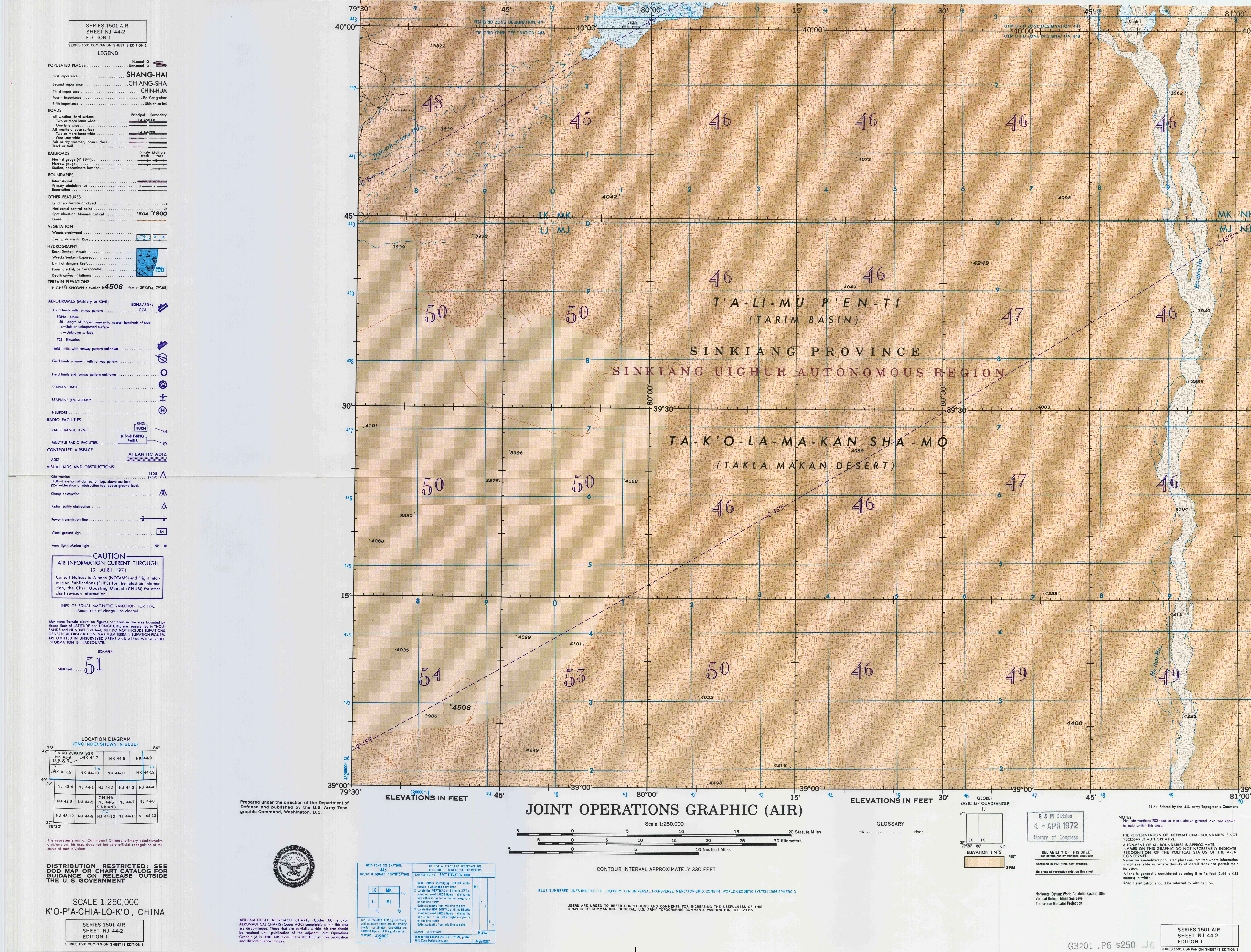 NJ-44-2 K'O-P'A-CHIA-LO-K'O China, Joint Operations Graphic (Air)